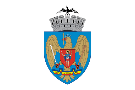 Bucharest-Flag (Replaced, this is my work!)